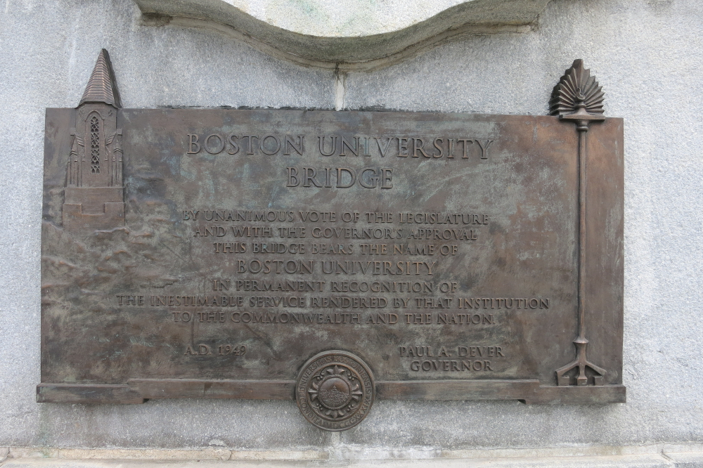 1949 plaque designating the name "Boston University Bridge" to this structure.